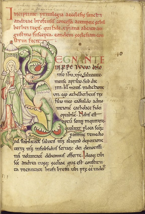 A page from the 12th-century Textus Roffensis showing the beginning of charter S 1, a grant from King Æthelberht of Kent to the church in Rochester.